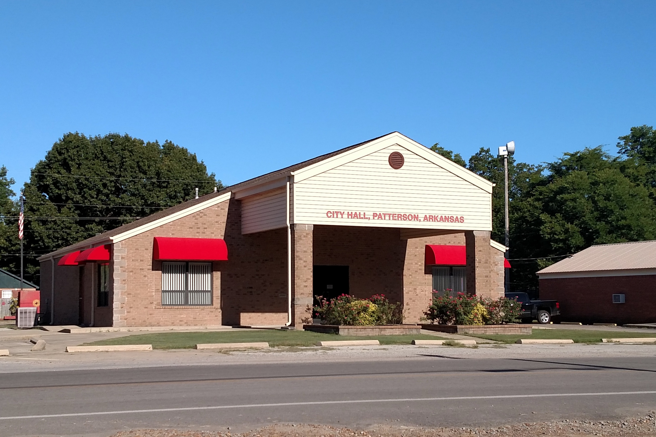 City hall in Patterson